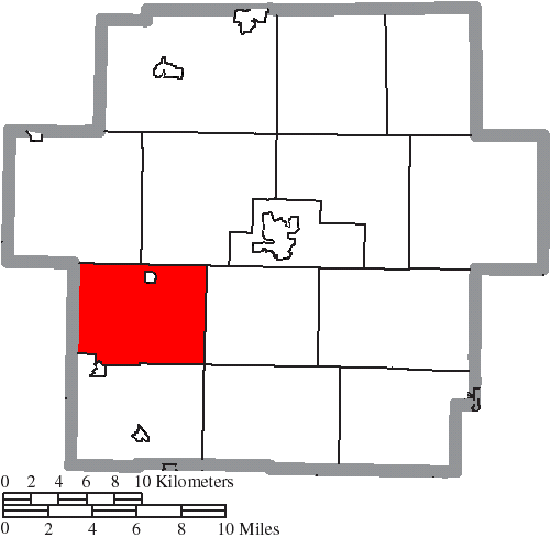 Map of the municipal and township boundaries of Carroll County, Ohio, United States, as of the 2000 census, with the location of Monroe Township highlighted. Township borders are shown only in unincorporated areas in order to differentiate incorporated and unincorporated areas more clearly.